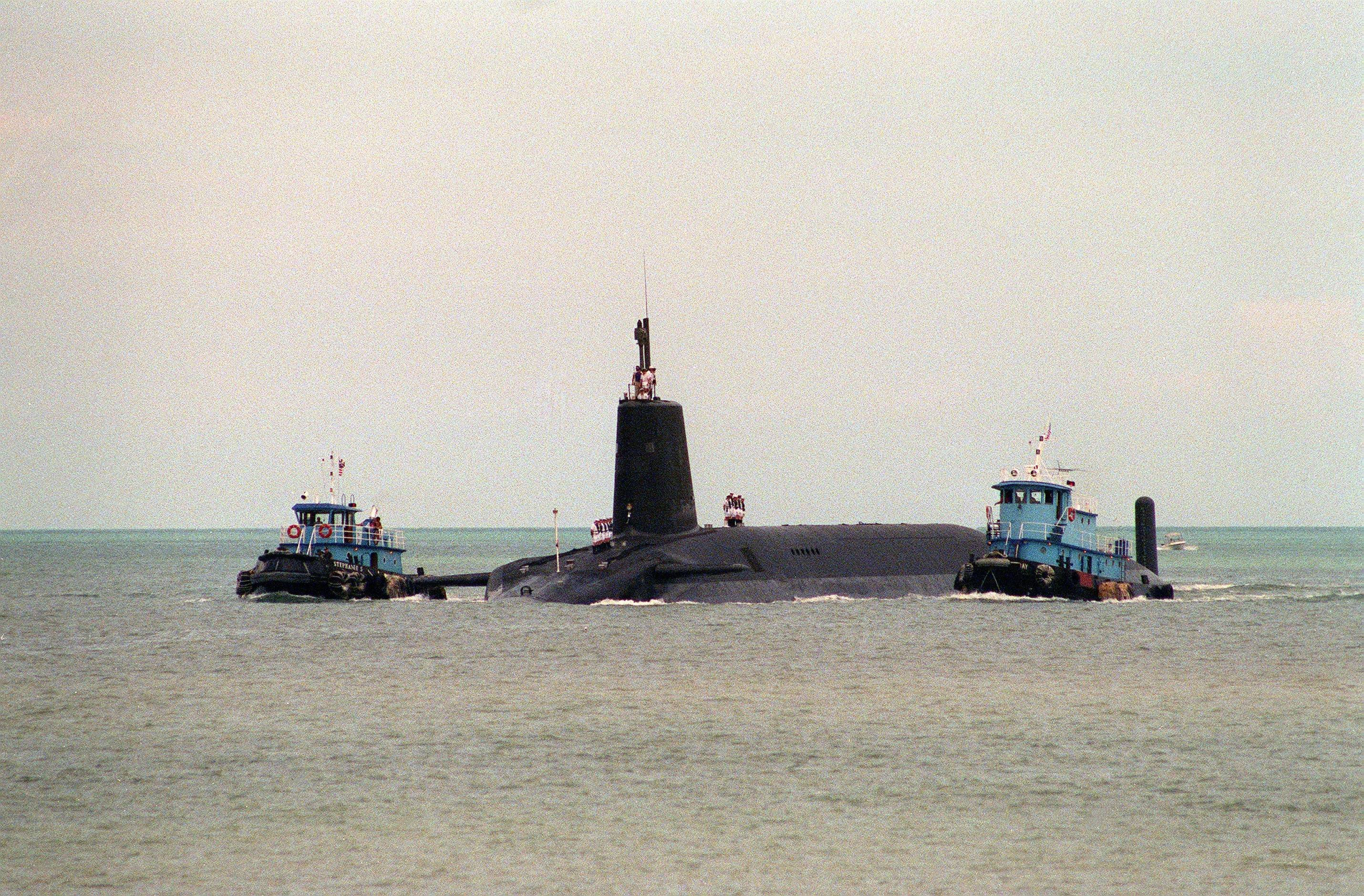 Released to Public ID: DNSC9401941 Service Depicted: A port bow view of the British nuclear-powered ballistic missile submarine HMS VANGUARD (SSBN-28) approaching the harbor entrance. The vessel is accompanied by two civilian tug boats. Location: PORT CANAVERAL, FLORIDA (FL) UNITED STATES OF AMERICA (USA)